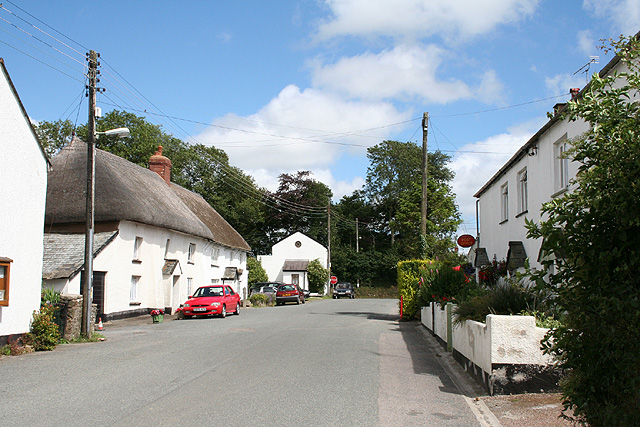 Spreyton: by the Post Office. Looking east-south-east at the east end of the village. The cottages by the red Escort are probably of cob construction; both thatch and slate are used for roofing and brick for the single chimney